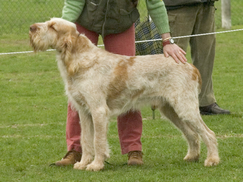 This is a Spinone, an italian pointing dog. Coatcolor is white-orange.